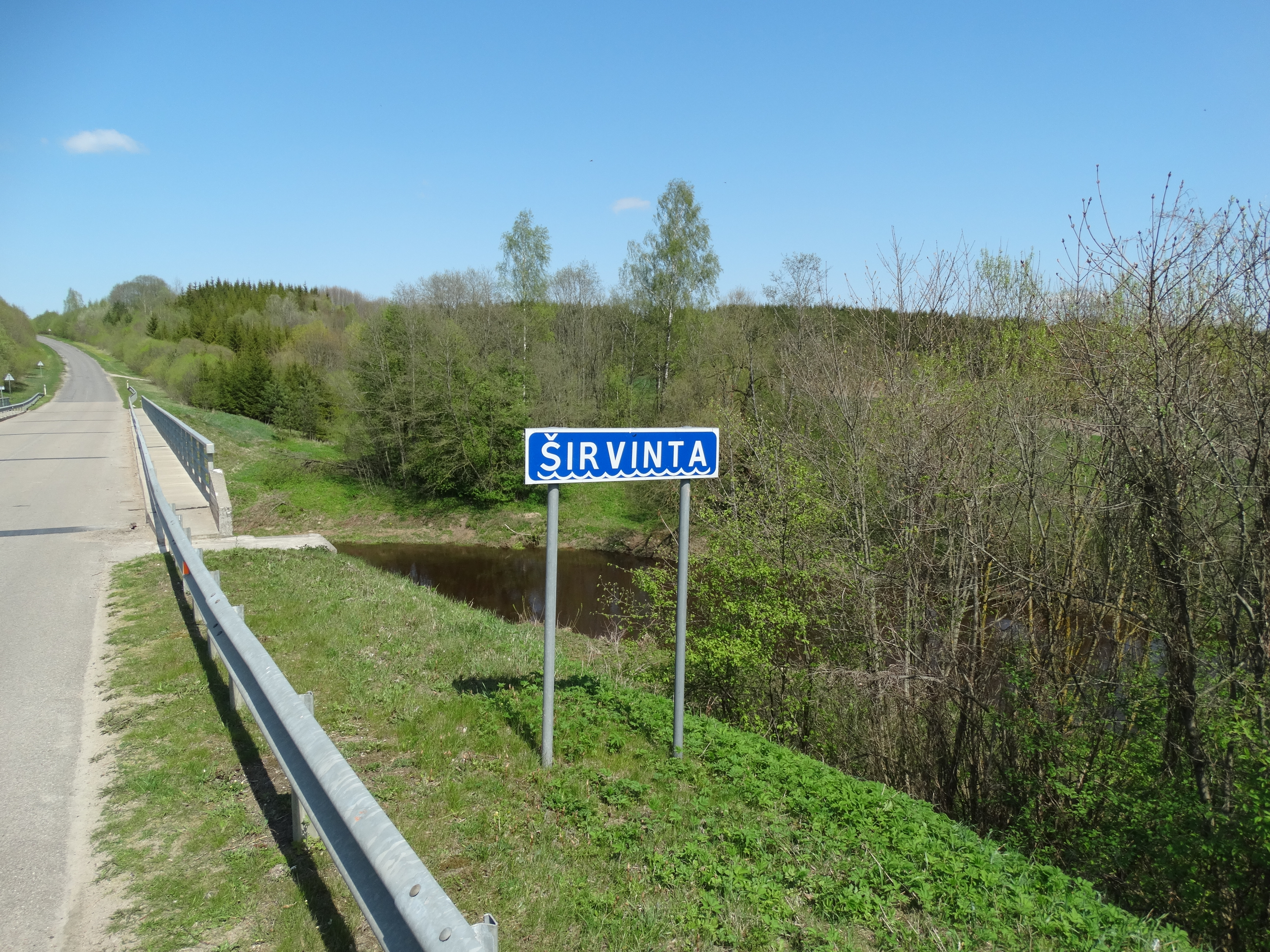 Širvinta River, Širvintos District, Lithuania